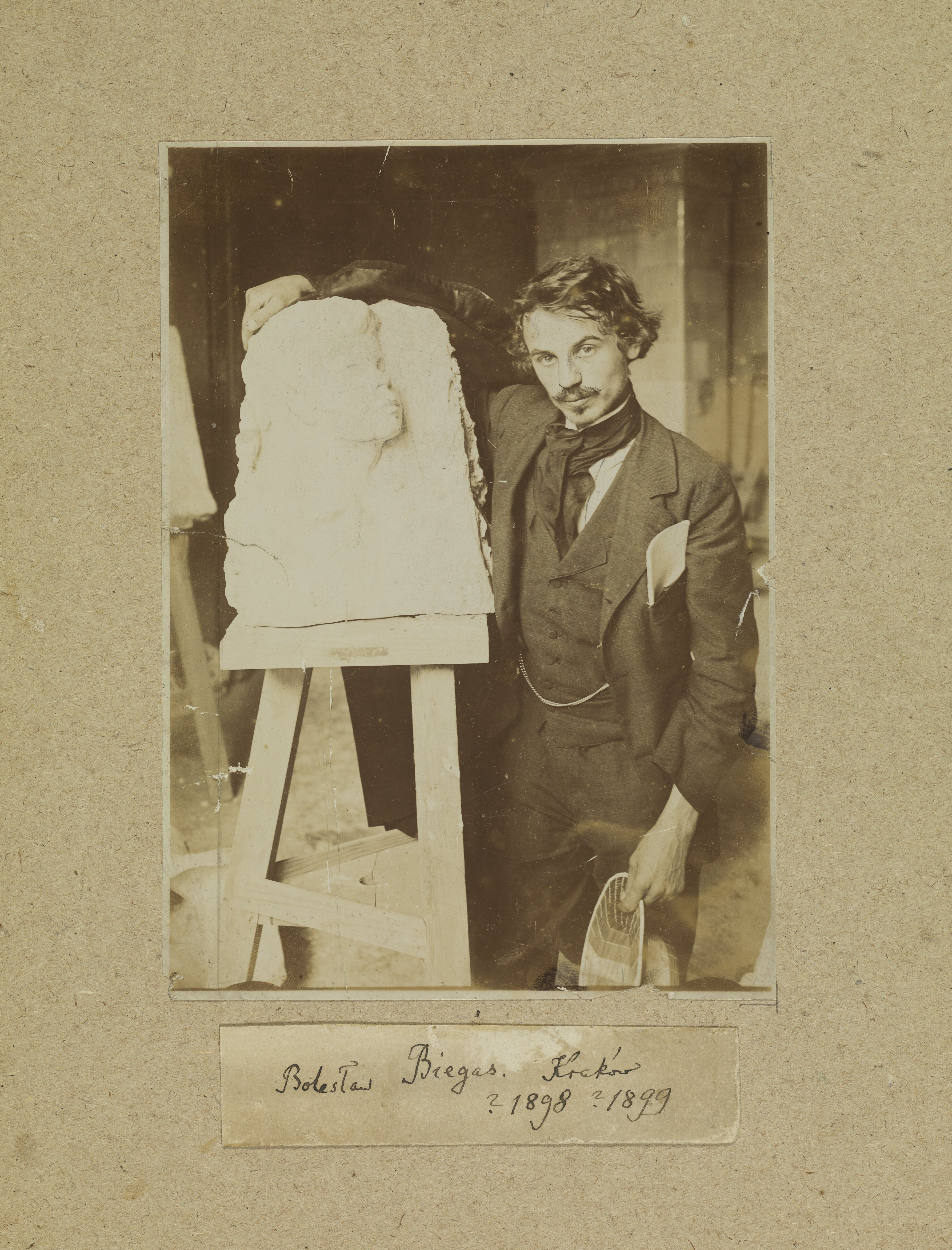 Portret Bolesława Biegasa w swojej pracowni, [1898-1899]